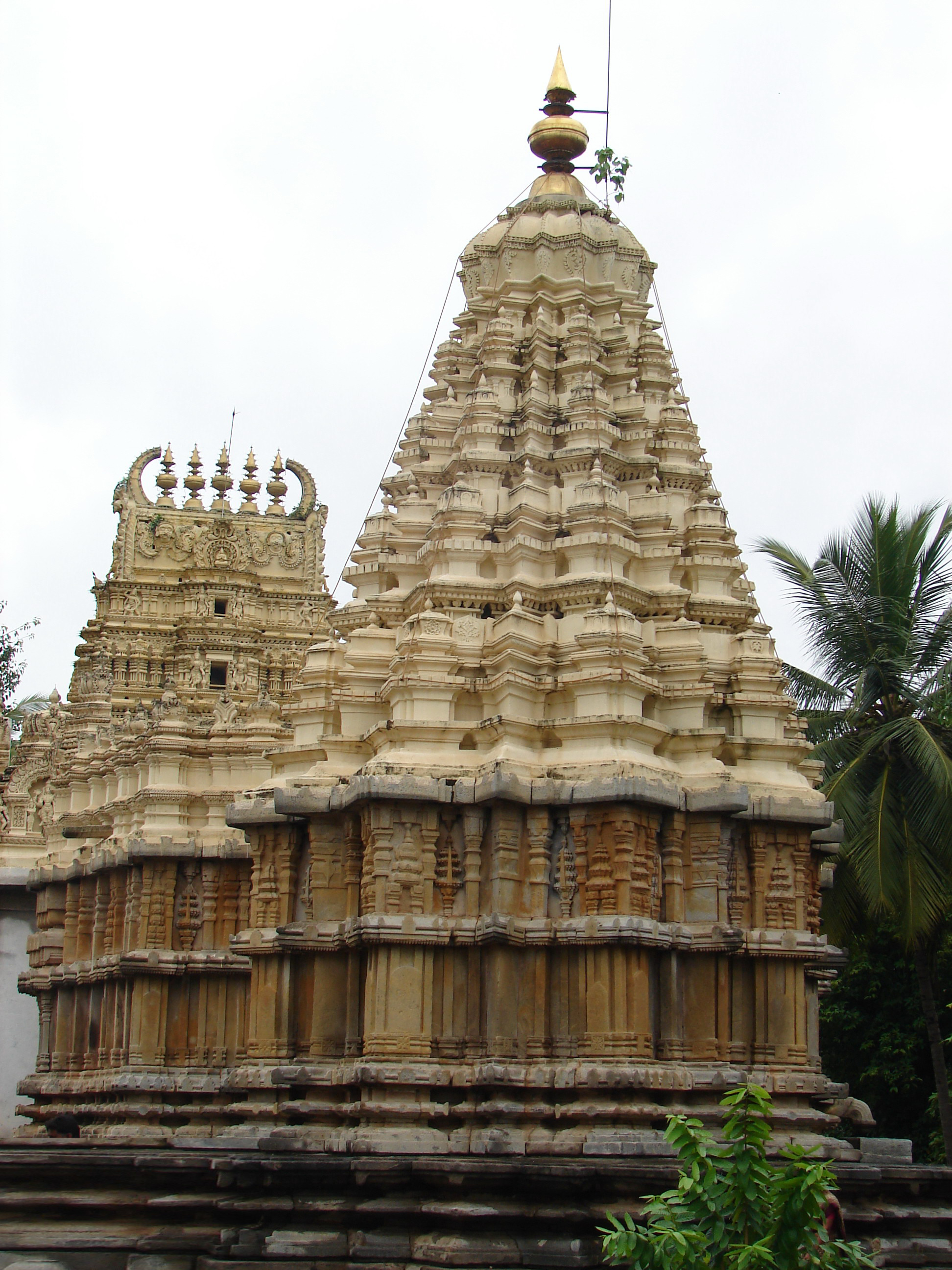 This photograph was taken by me at the Shveta Varahaswami temple, Mysore Palace grounds, Mysore, Mysore district, Karnataka state, India. The construction of the temple was undertaken during the reign of King Chika Devaraja Wodeyar (also pronounced Wadiyar) in the time period 1673-1704 A.D.